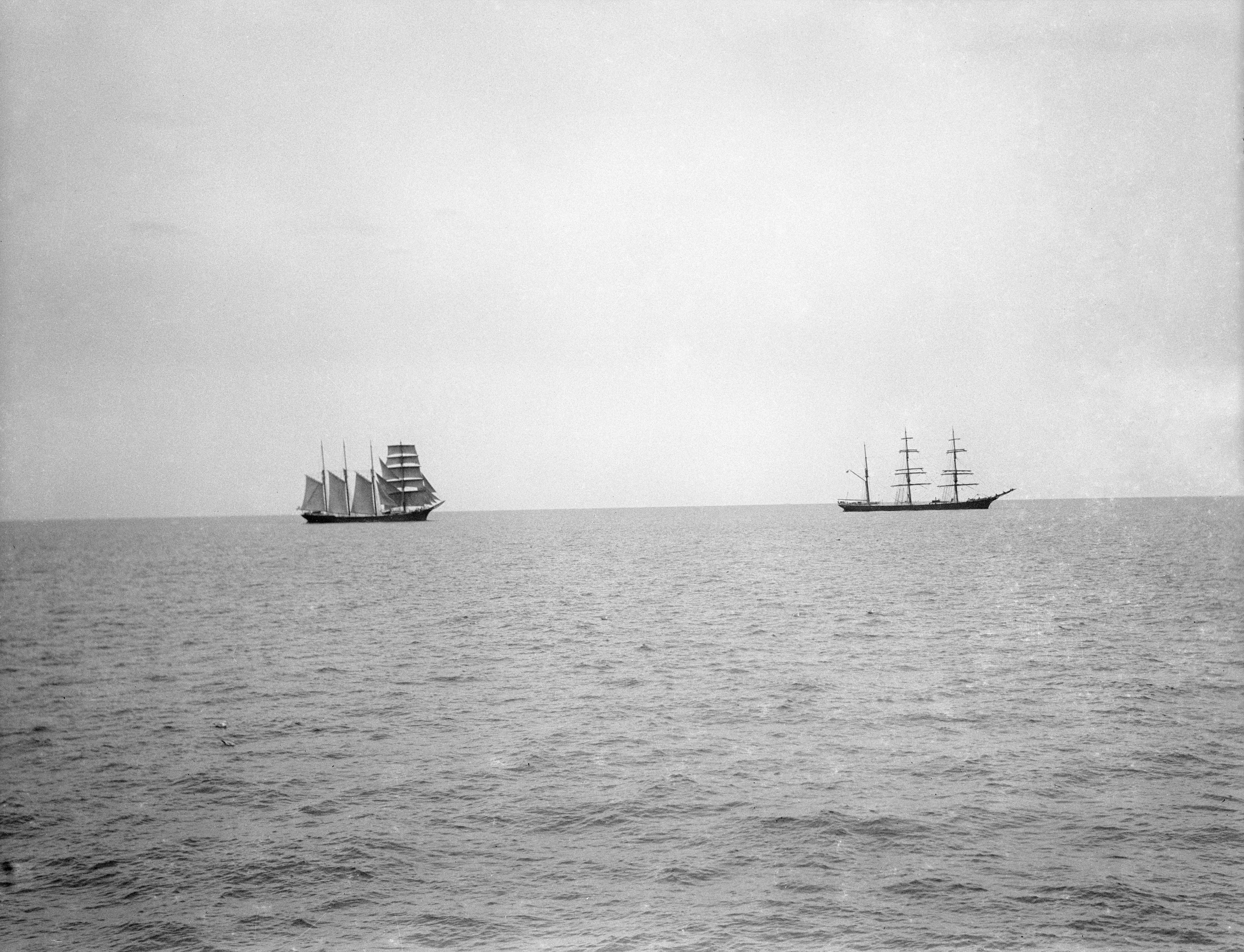 The 'Mozart' (left) and the 'Penang' ex Albert Rickmers (right), view from the 'Parma'.Reproduction ID: N61805Maker: Alan VilliersVilliers collection